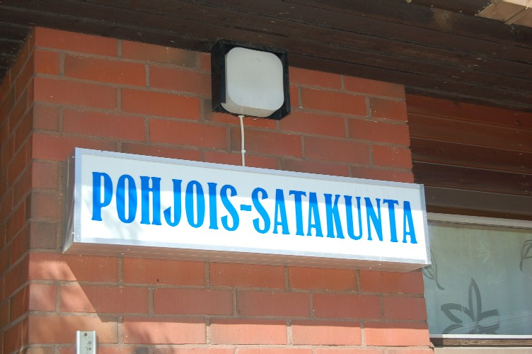 sign